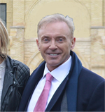 Brian Sterling-Vete on location for the Geist film May 2014